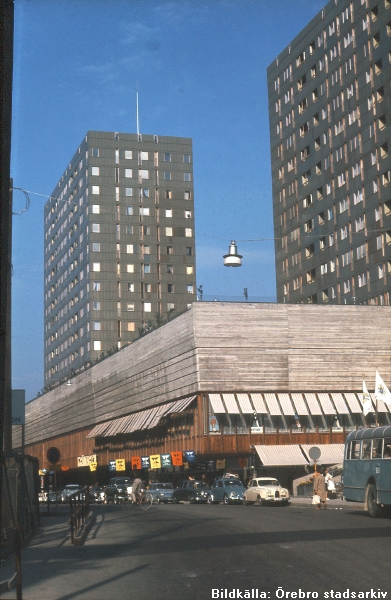 Krämaren, Örebro, Sweden